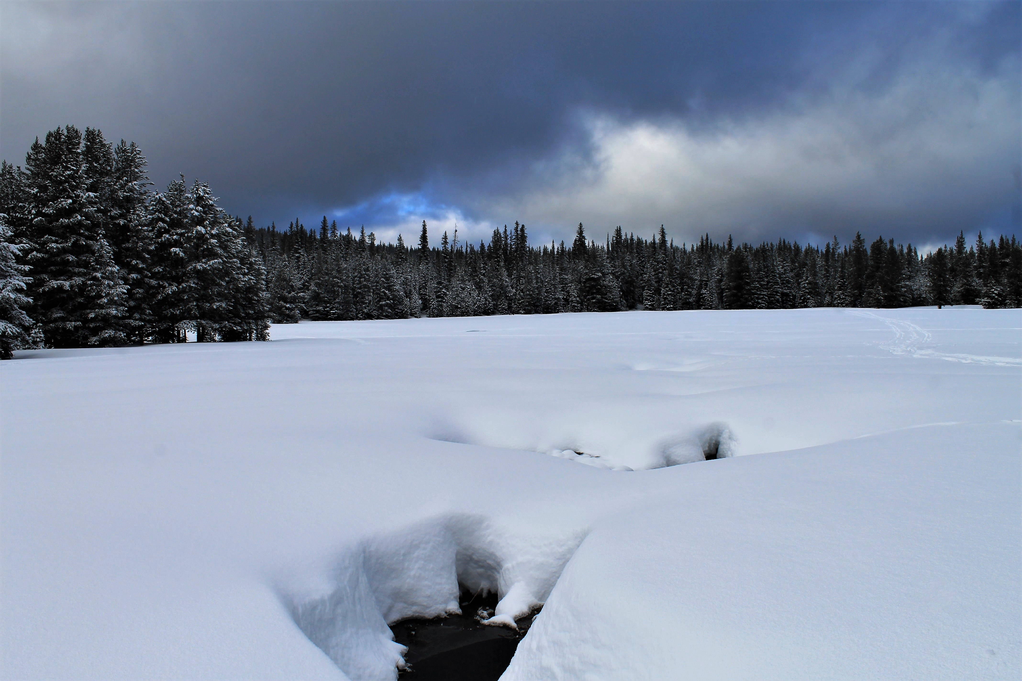 This is a photo of Mud Lake at Anthony Lakes ski resort.